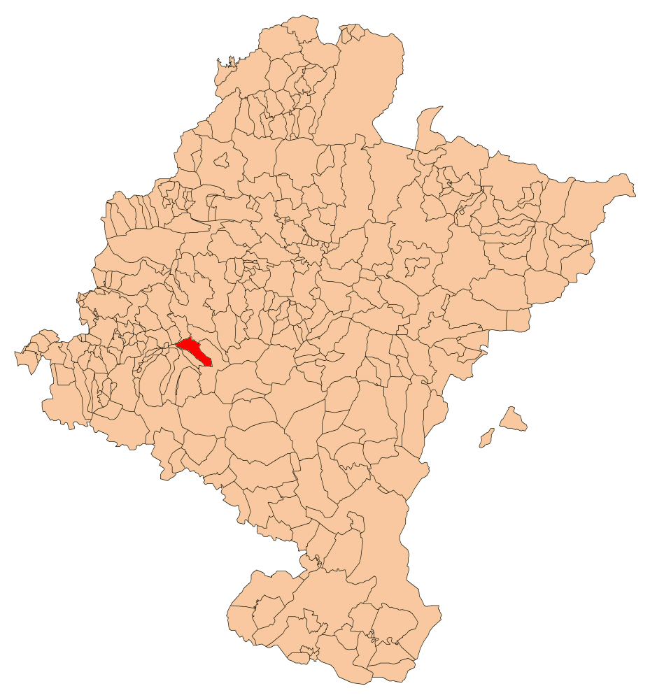 Aiegi Nafarroako mapan kokatua. Location map of Aiegi.